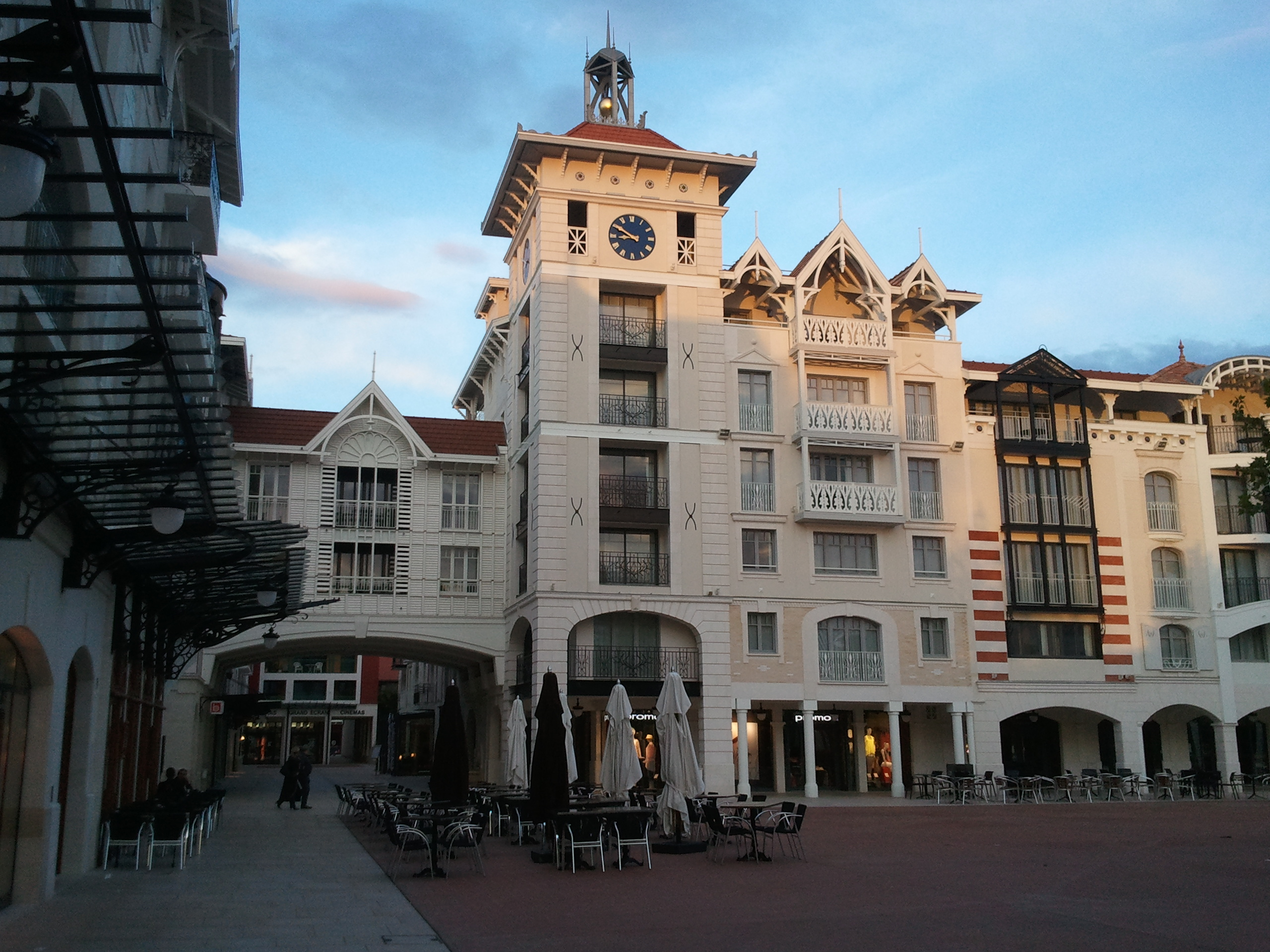 The new center of Arcachon at the sunset.